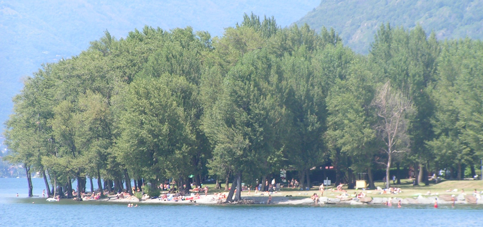 Beach of Maccagno (Lago Maggiore)